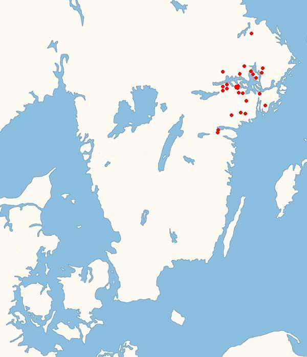 using Image:Runestones theghnnames.jpg as a basis.